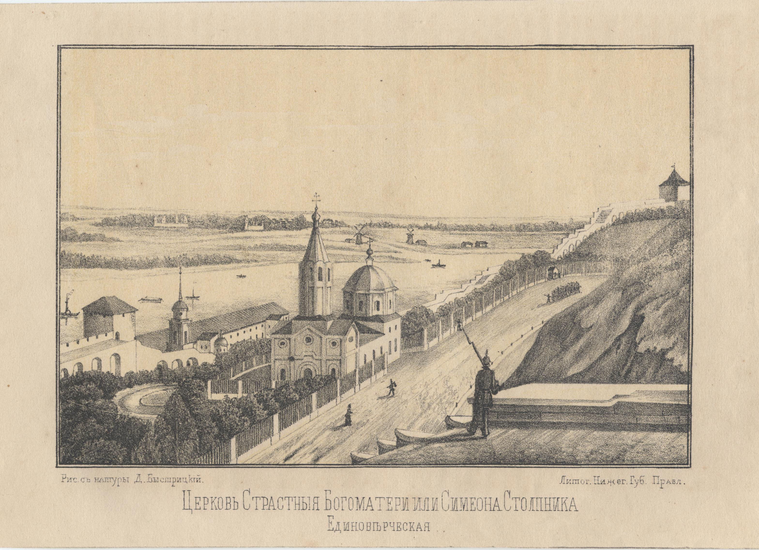 Nizhny Novgorod. Kreml. Simeon Stylites church